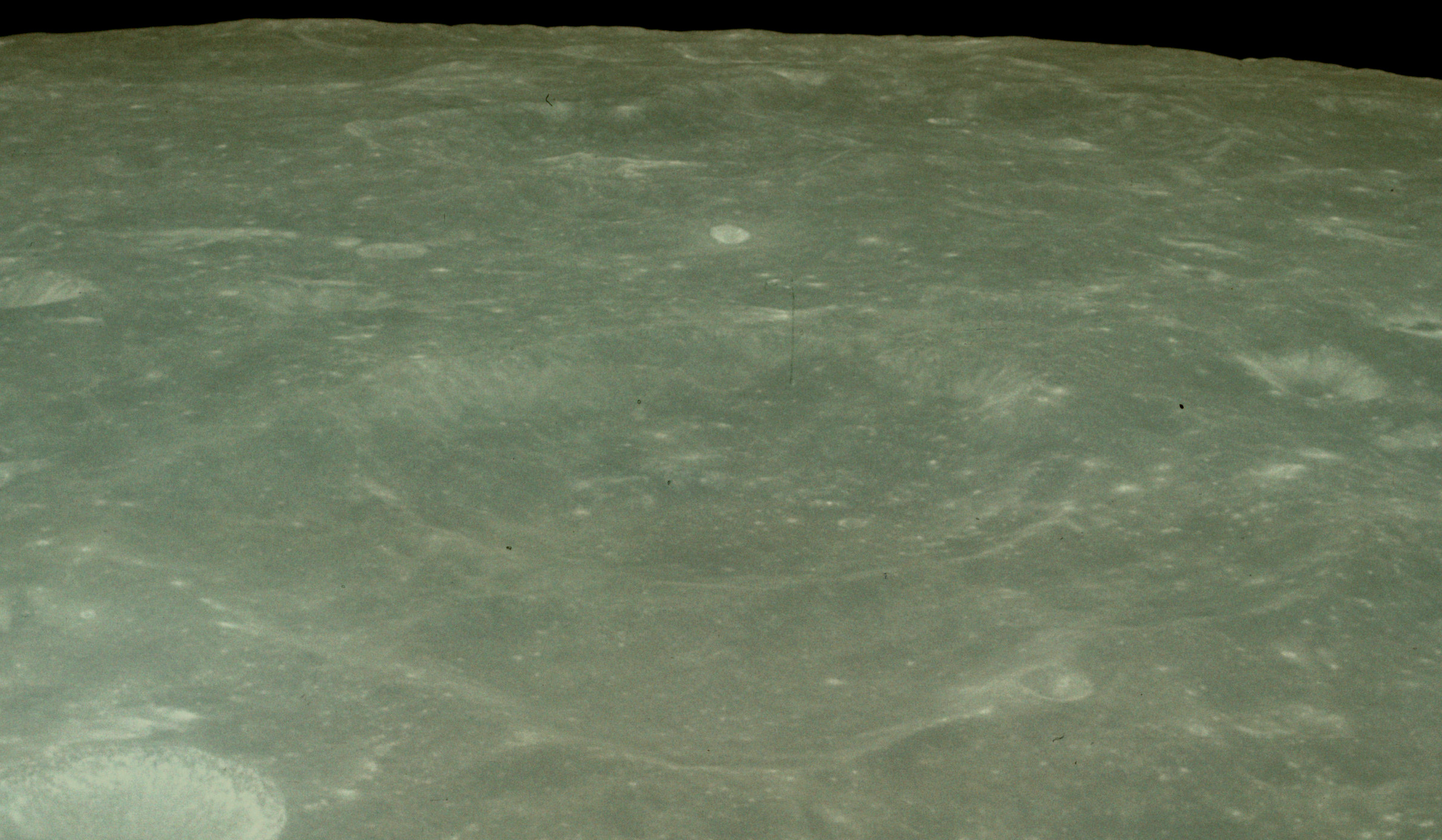 Oblique view of Al-Khwarizmi crater, on the far side of the moon. Brightness and contrast enhanced from original.